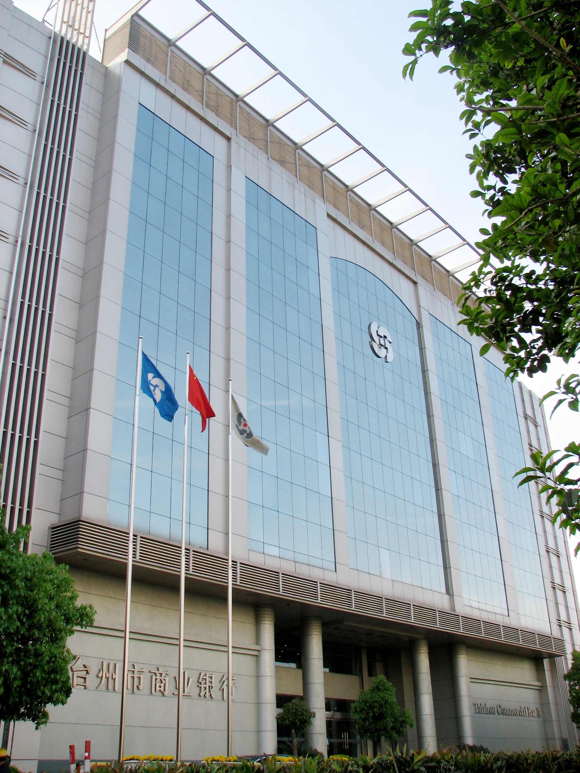 TZCB - Head office